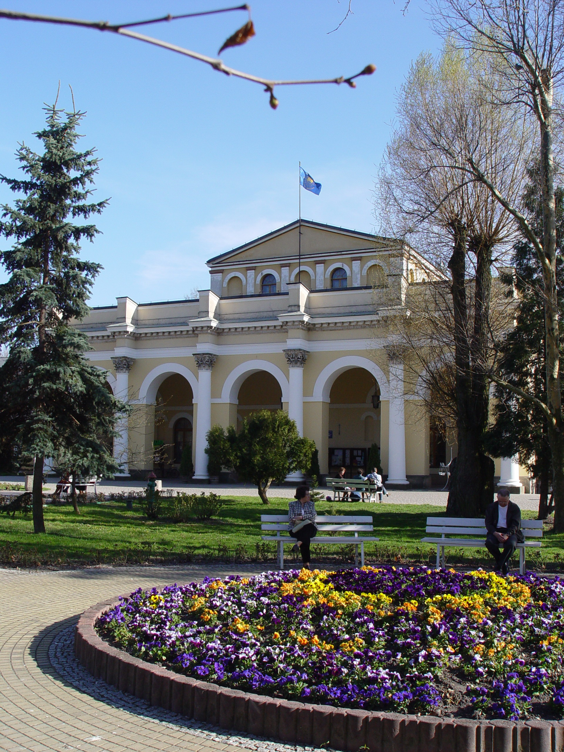 Spa House "Marconi", (architect: Enrico Marconi), Busko-Zdroj, 14 April 2007